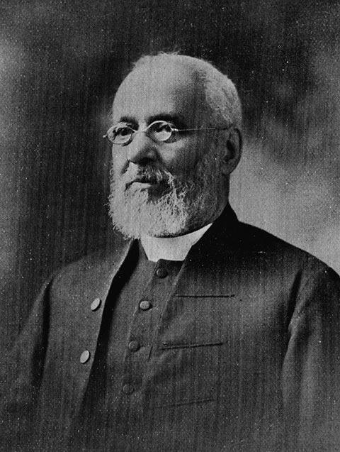 Hon. J.W. Johnston, Premier of Nova Scotia 1838 - 1847 and 1857 - 1860